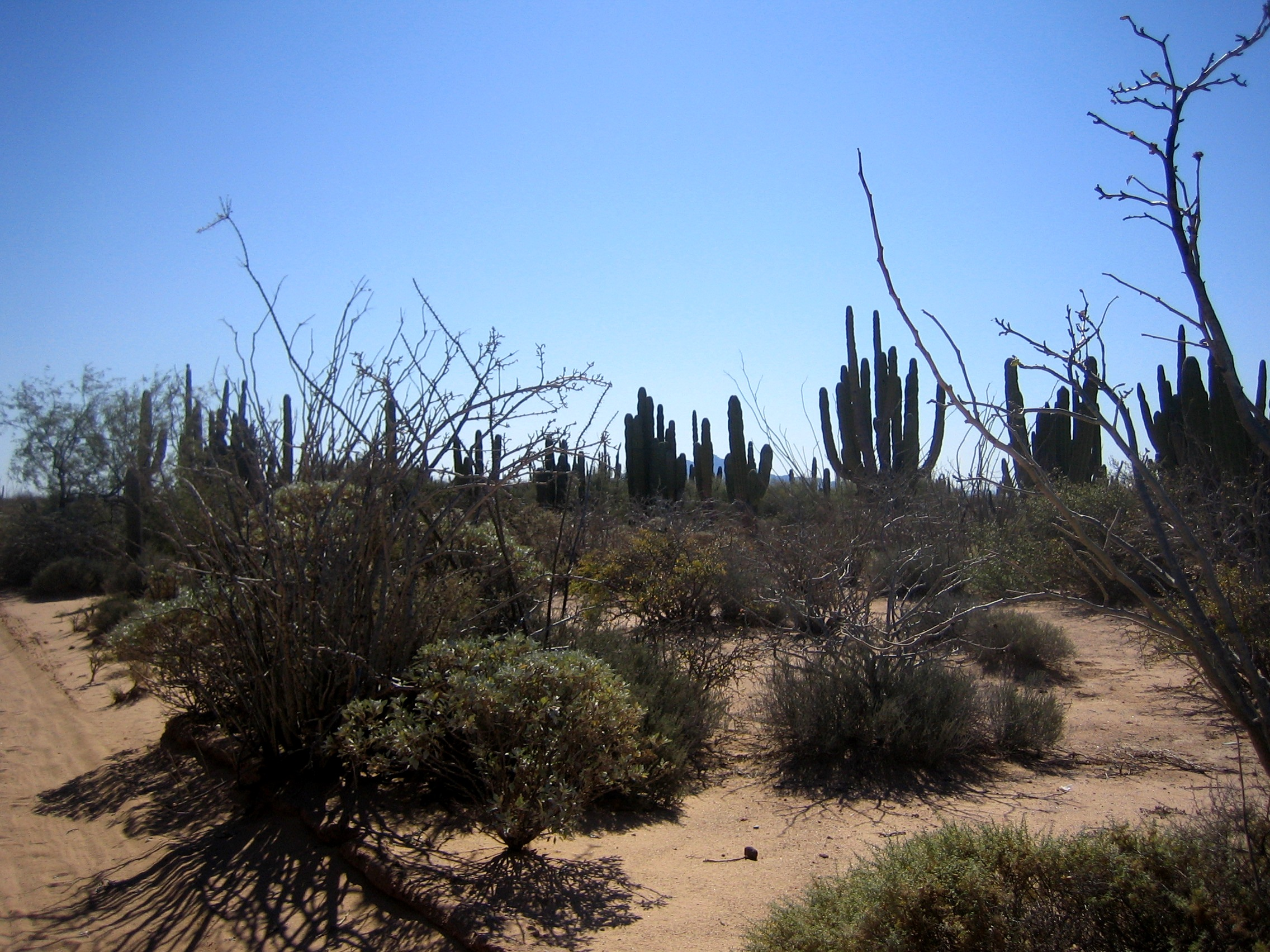 Pachycereus pringlei, sagueso, cardón, sahueso, in a stand or forest, Sonora, Mexico